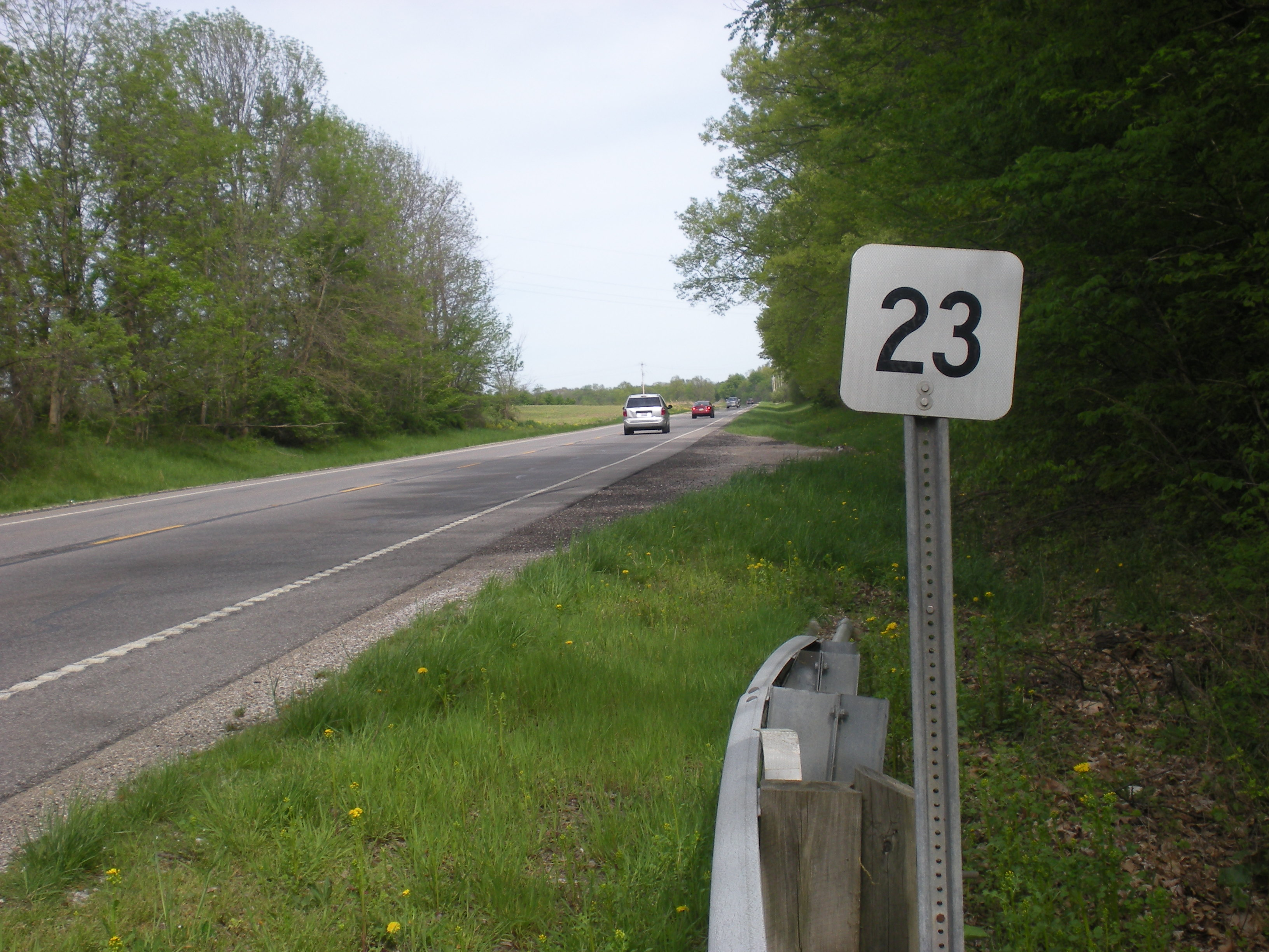 Mile marker 23 on US 36 in Delaware County, Ohio. It marks the location which is 23 miles from the Union County line.